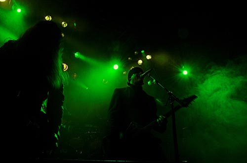 Celtic Frost, live at Hole in The Sky, Bergen Metal Fest 2006